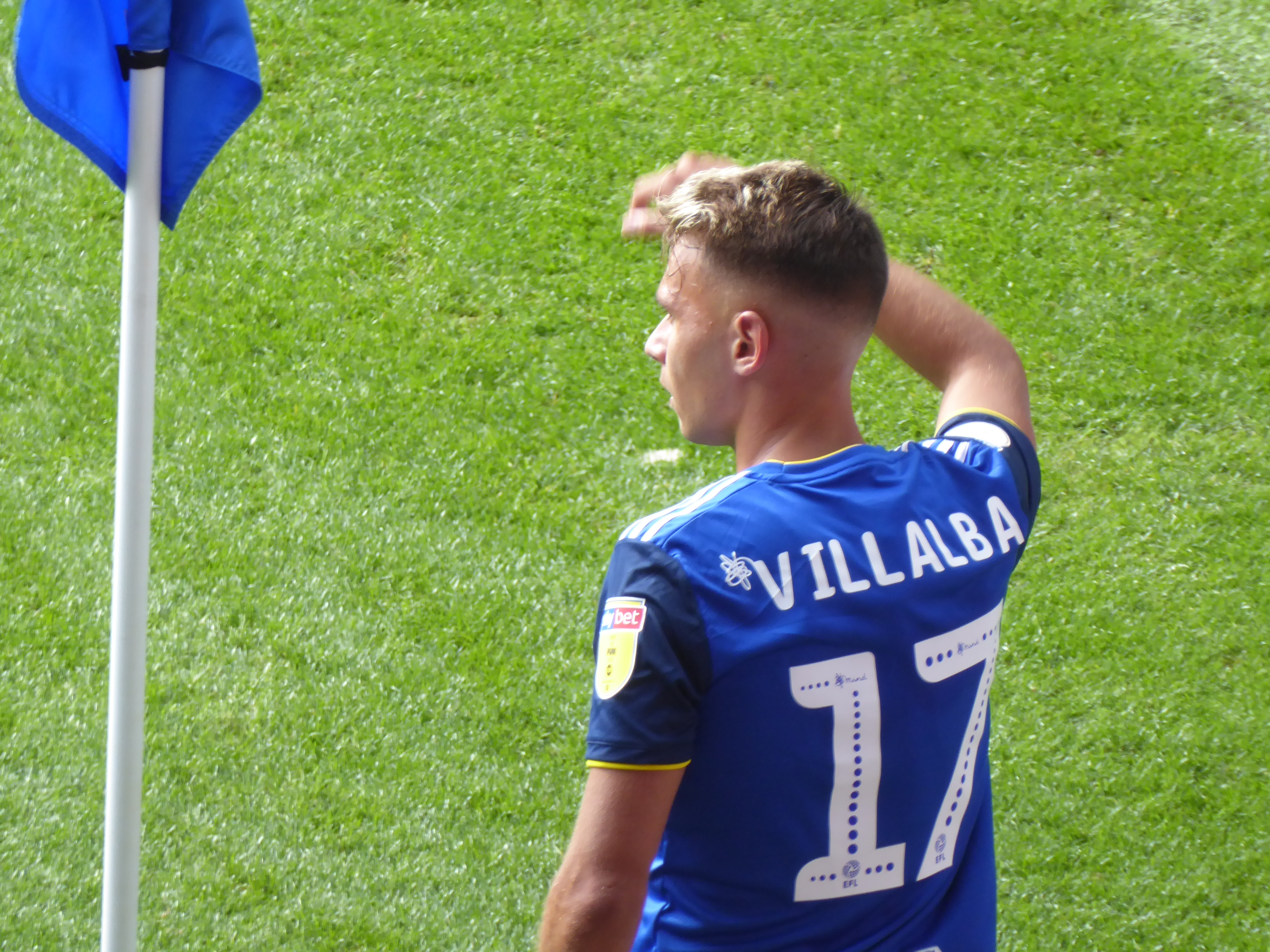 Fran Villalba prepares to take a corner kick during his Birmingham City F.C. debut in the EFL Championship match against Bristol City F.C. at St Andrew's on 10 August 2019